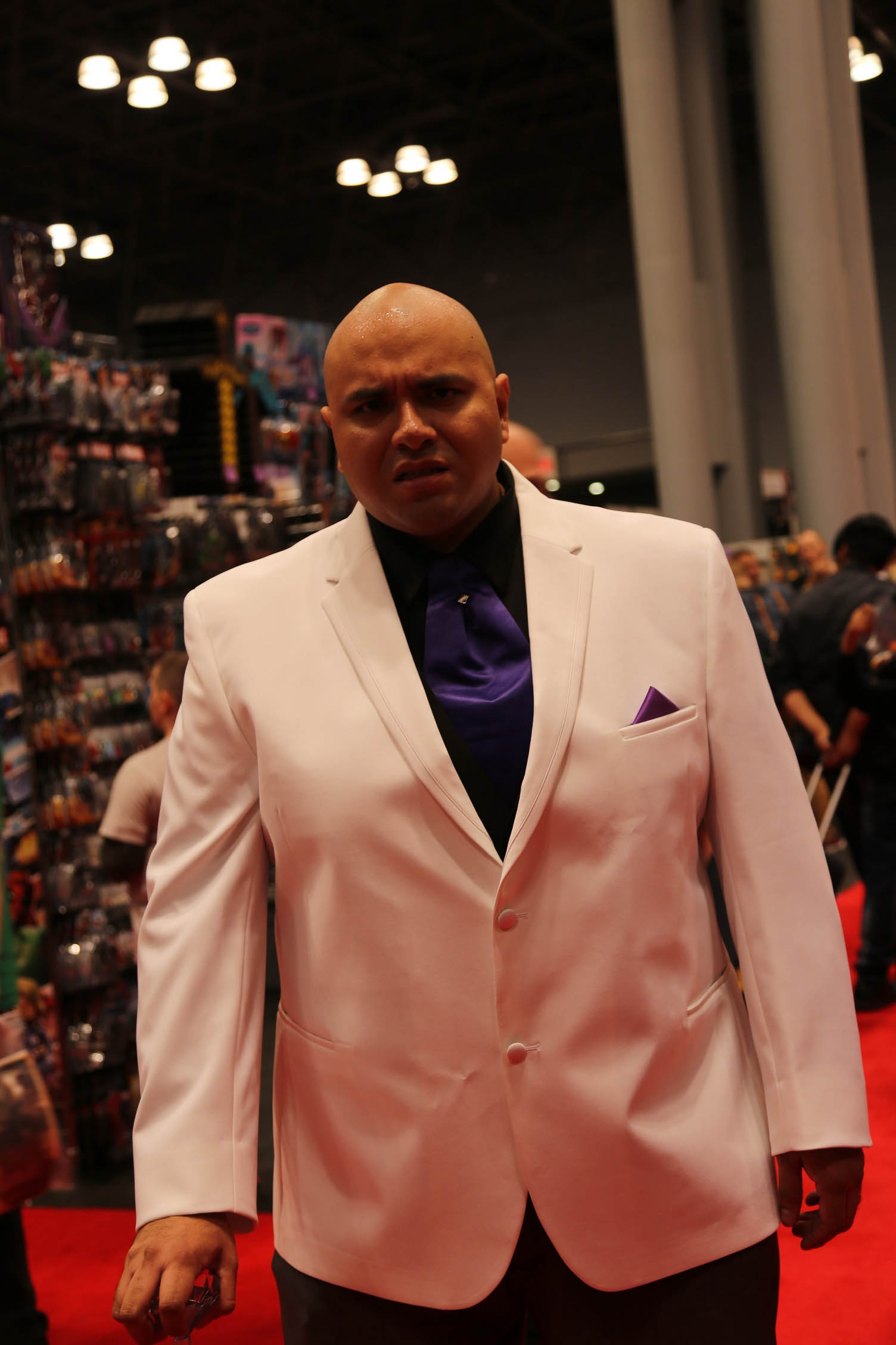 Cosplay at the 2014 New York Comic Con.